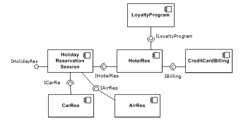 A simple example of two software components.